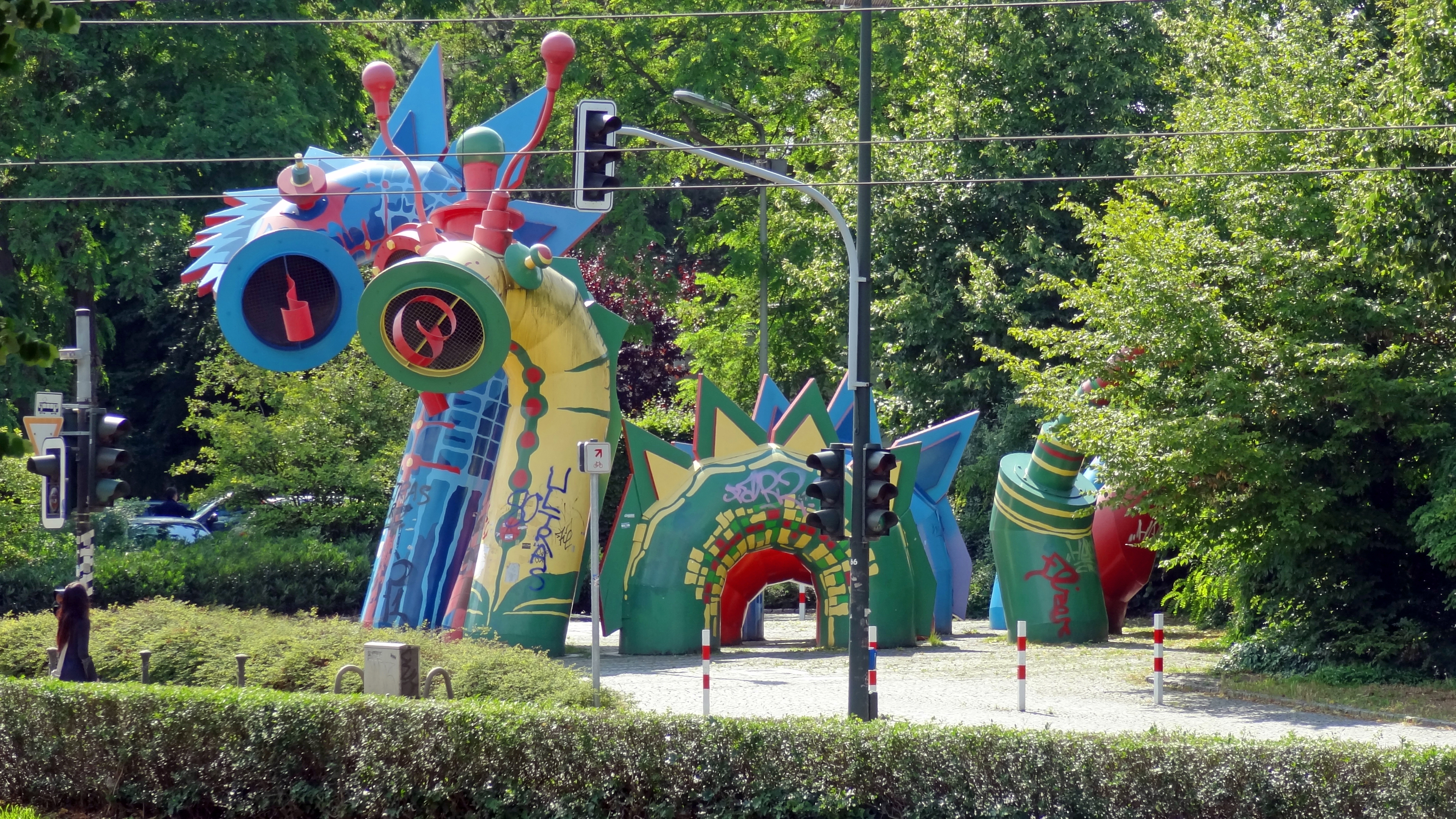 Düsseldorf Bilk: Exhaust air unit of the sewer tunnel "main collecting tunnel South". This is an underground reservoir for drain/waste water.